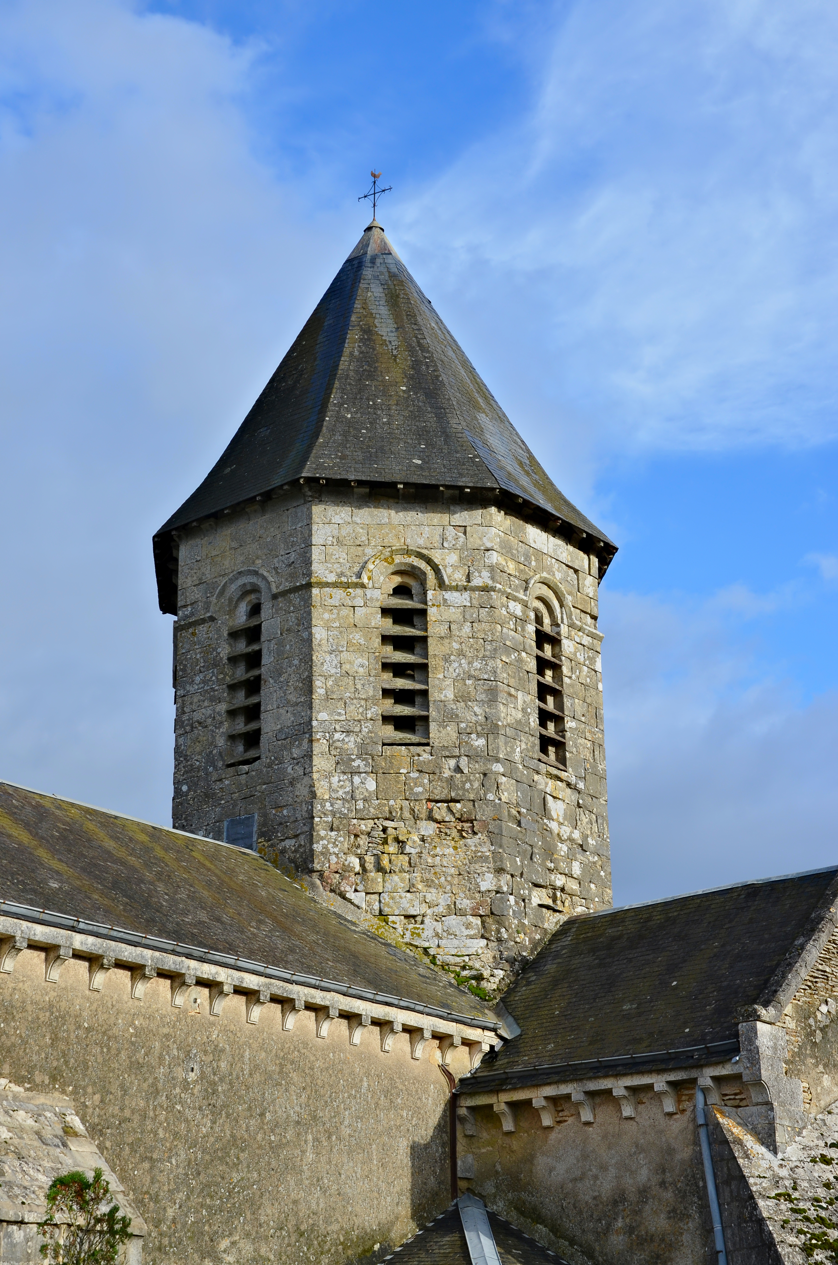 Octogonal clock tower of the romanesque church of Châtain, Vienne, France.